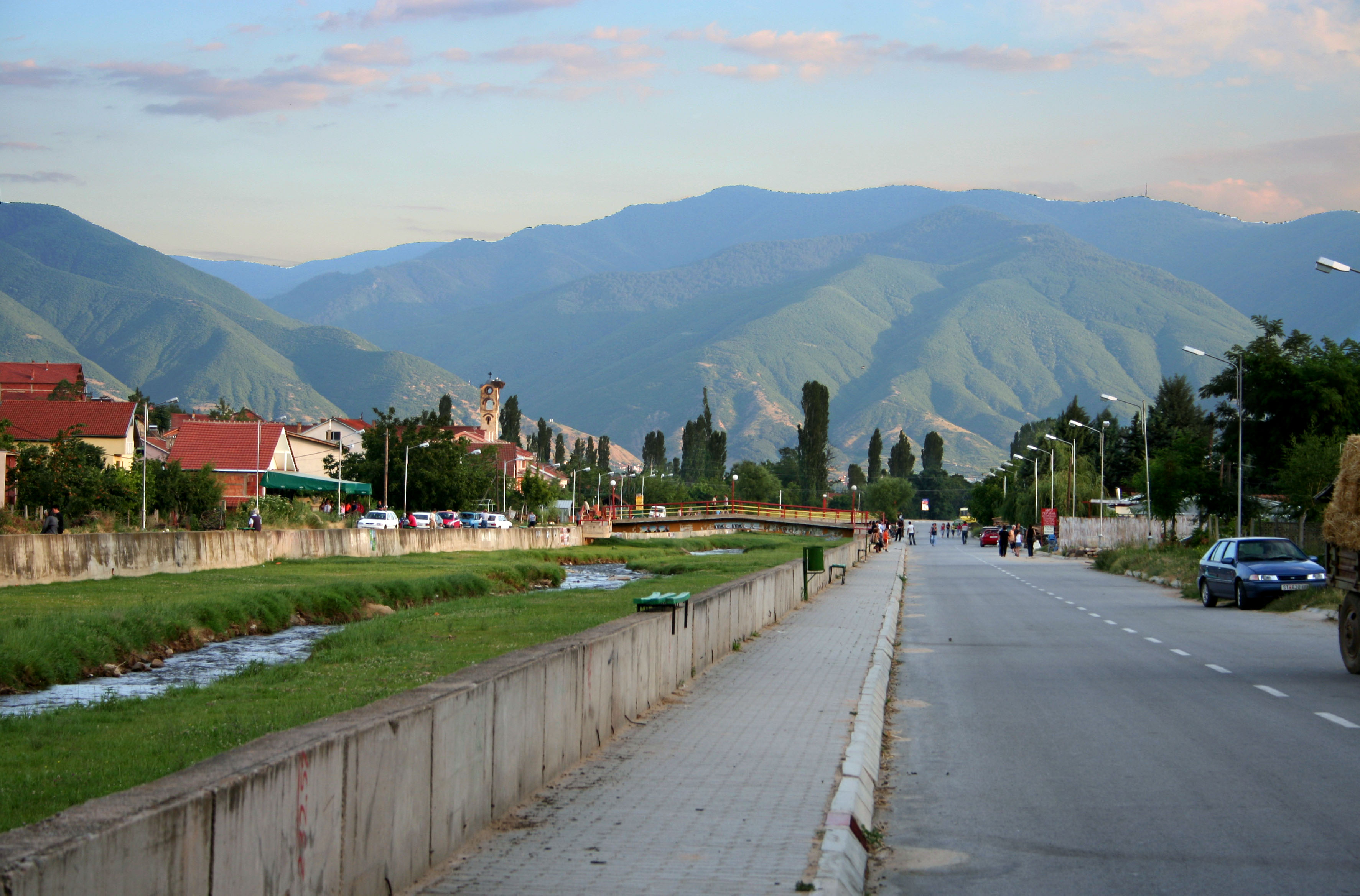 Orizarska or Orizari River, Republic of Macedonia